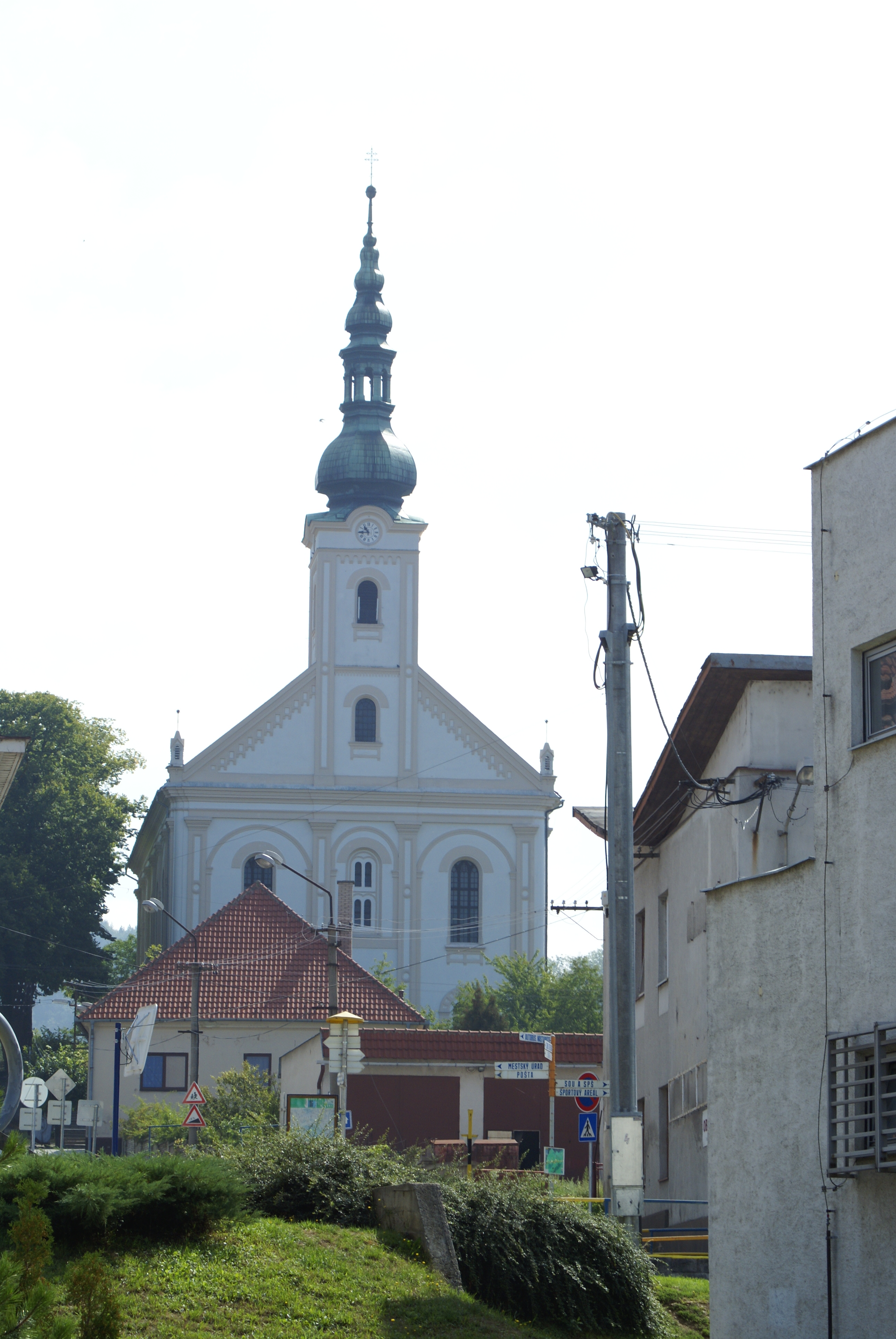 Brezová pod Bradlom, Slovak Republic